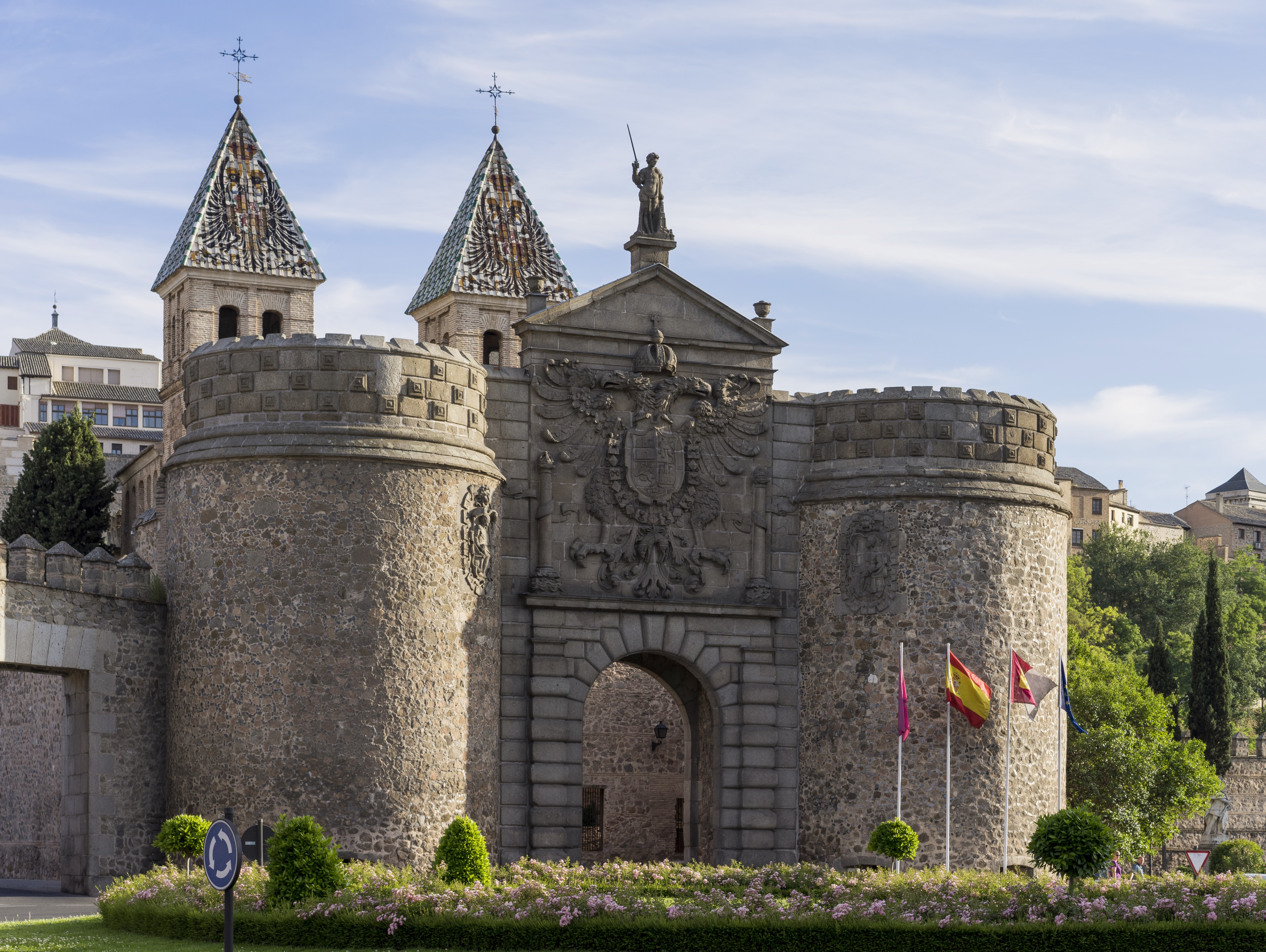 Puerta de Bisagra toledo spain 2014